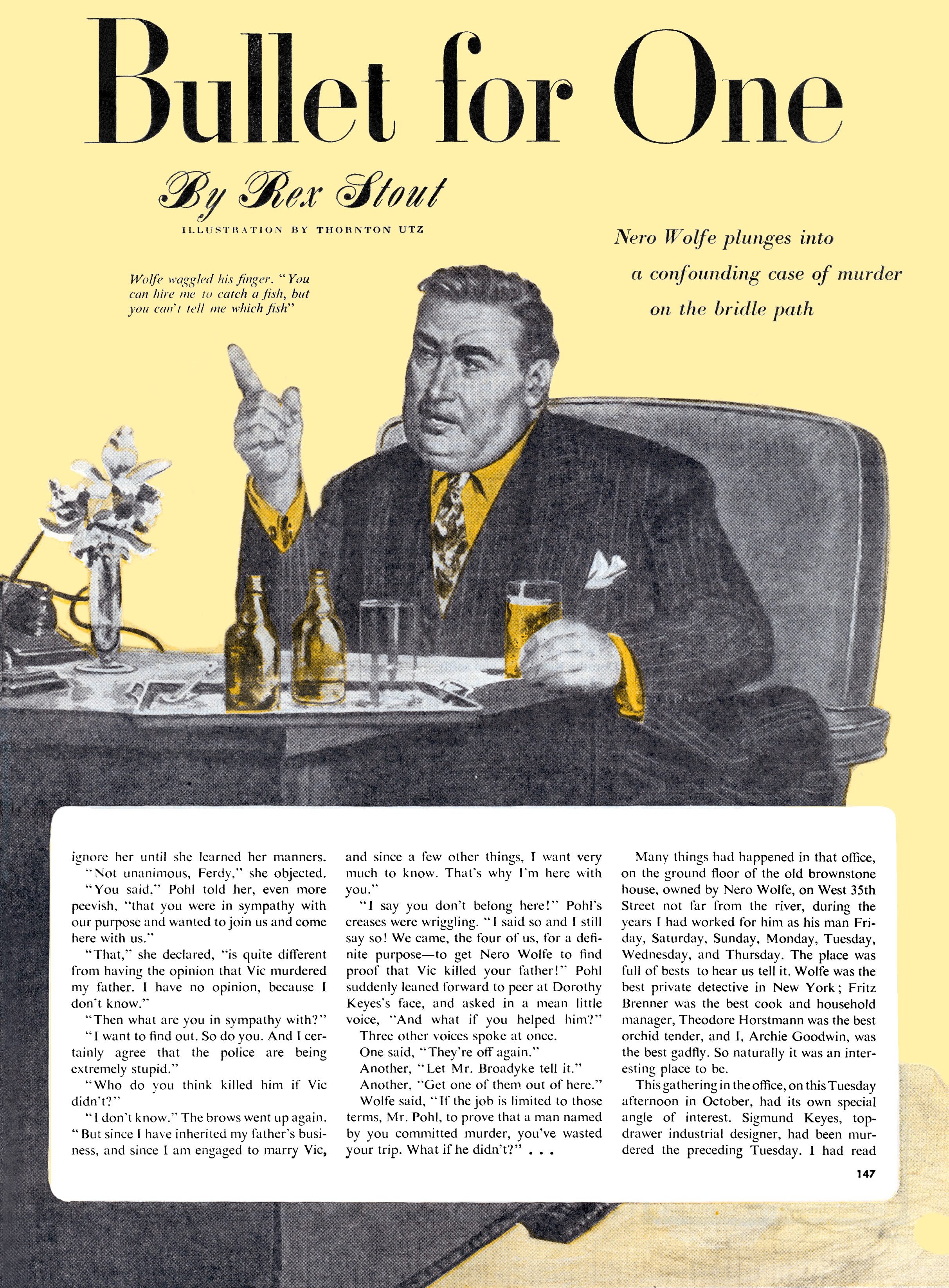 Illustration from The American Magazine printing of "Bullet for One", a Nero Wolfe short story by Rex Stout